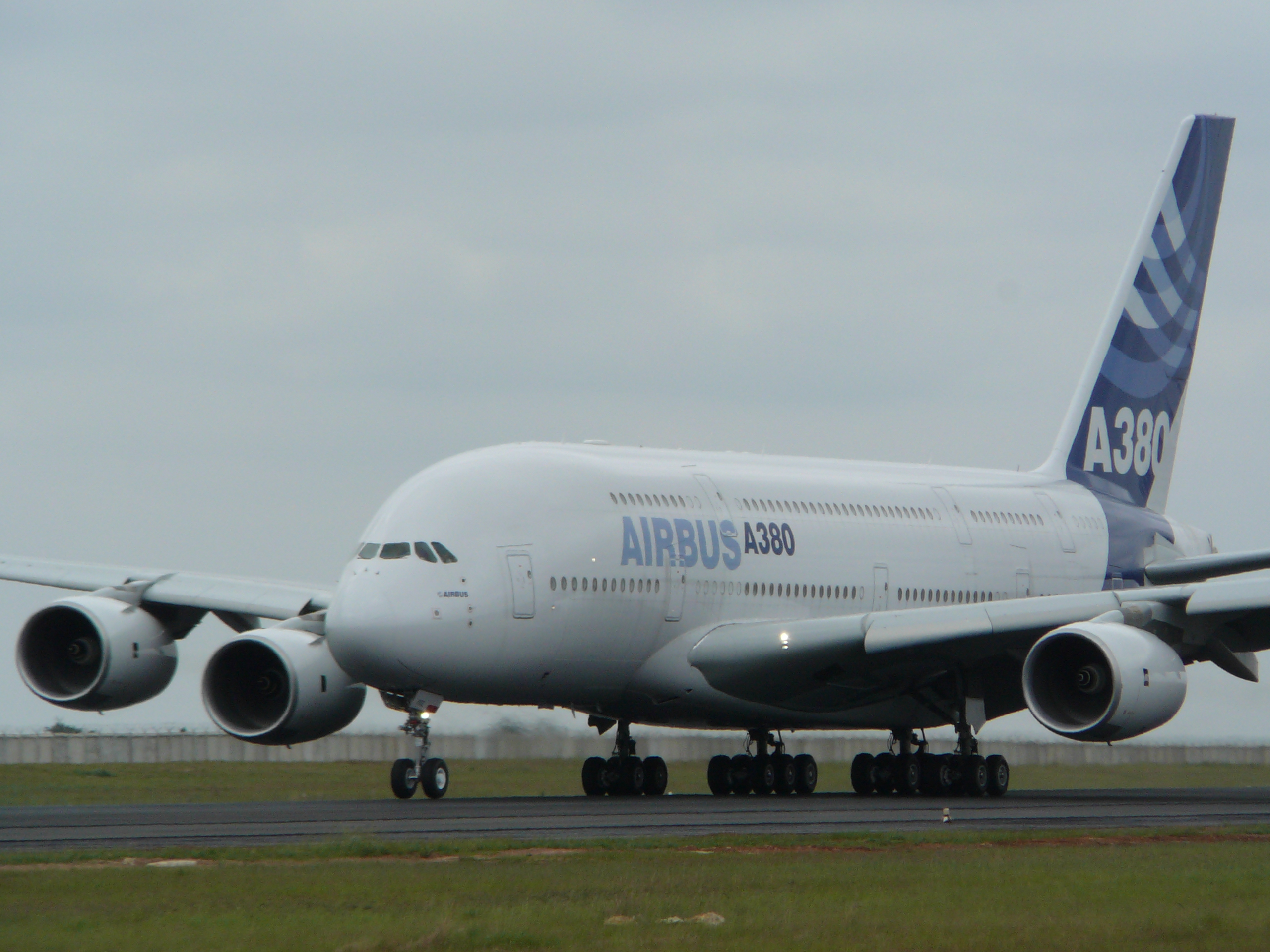 Author: GHM Kolia, picture taken by me, of Airbus A380 at OR Tambo Airport, Johannesburg, South Africa, undergoing trials on Sunday, November 26 2006.